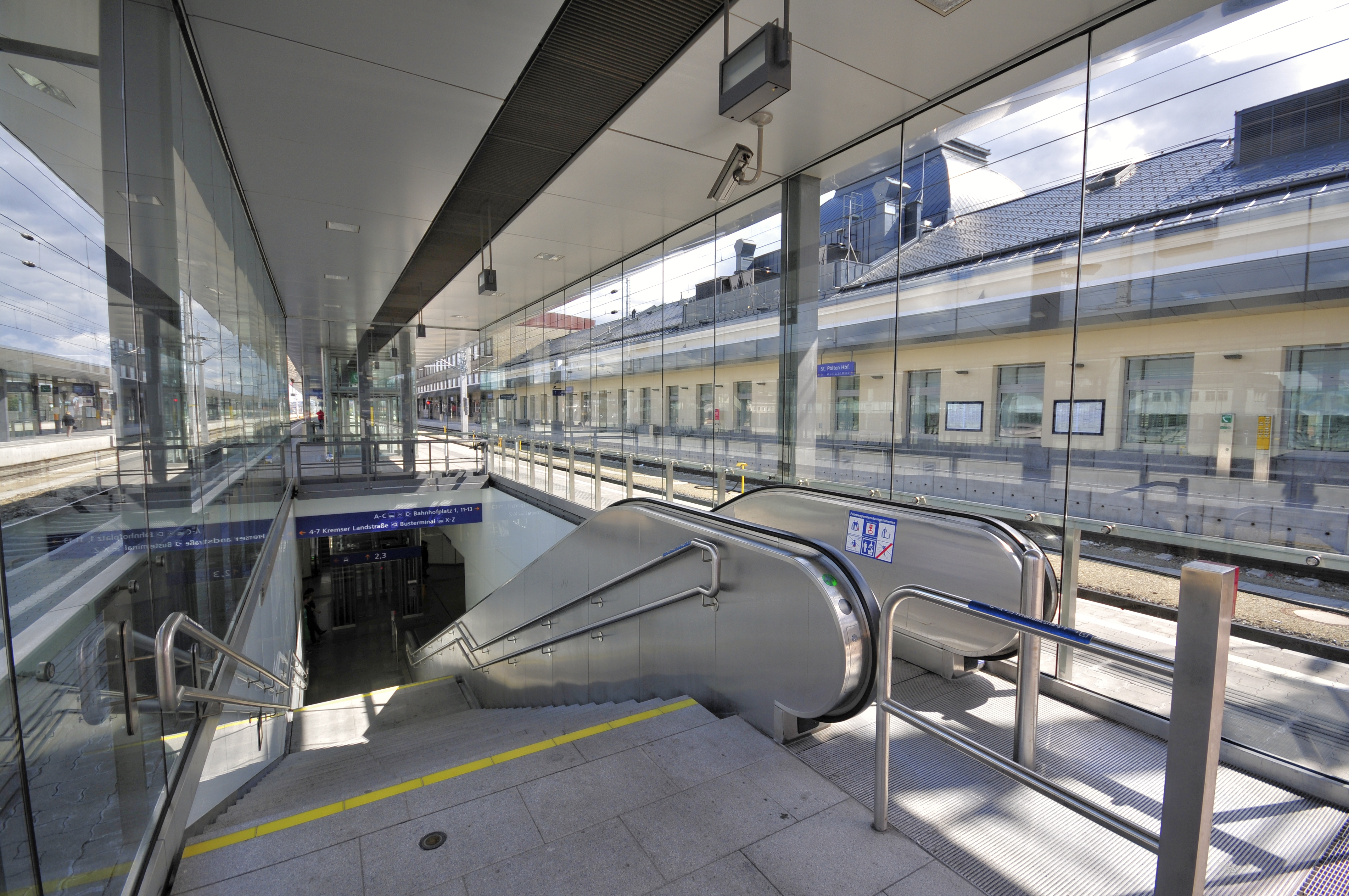 St. Pölten, Austria, Main Train Station Fotowanderung St. Pölten 13. April 2013 in St. Pölten, Niederösterreich 50mm • Allgemeines • Bahnhof • Domplatz • Fahrräder • Landhausviertel • Rathausplatz